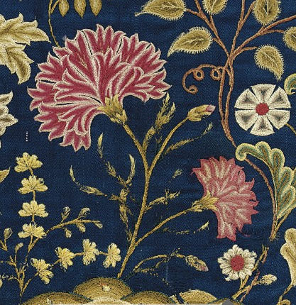 Panel embroidered in crewel wools on blue linen, possibly originally a chair seat cover